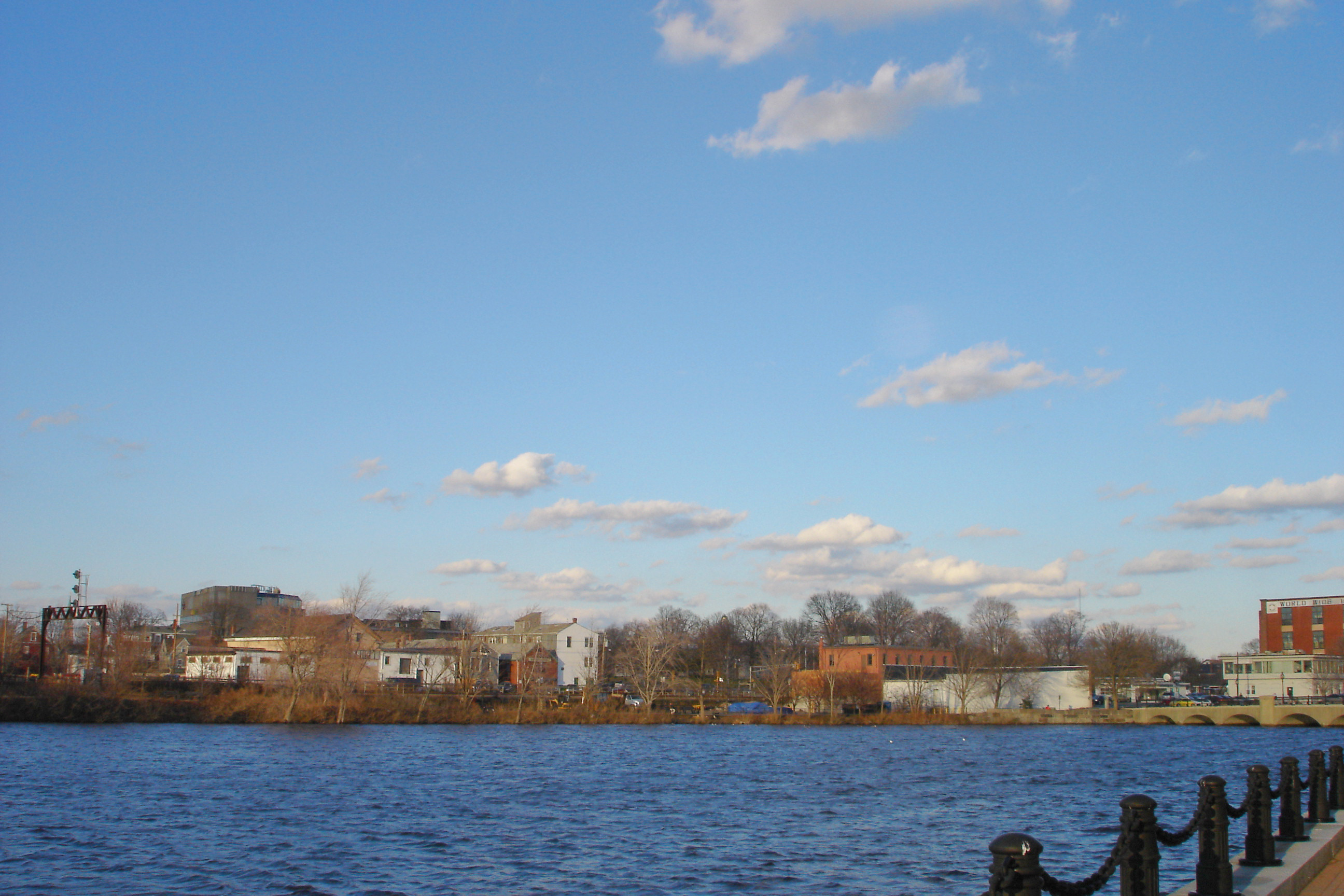 Taken from outside Cronin's Landing on the banks of the Charles River in Waltham, Massachusetts, USA.